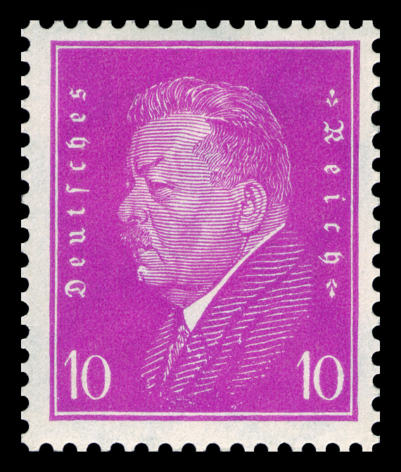 Presidents of the German Empire - Fiedrich Ebert (1871-1925) Graphics by unbekannt Ausgabepreis: 10 Pfennig First Day of Issue / Erstausgabetag: 1930 Michel-Katalog-Nr: 435 (Deutsches Reich)